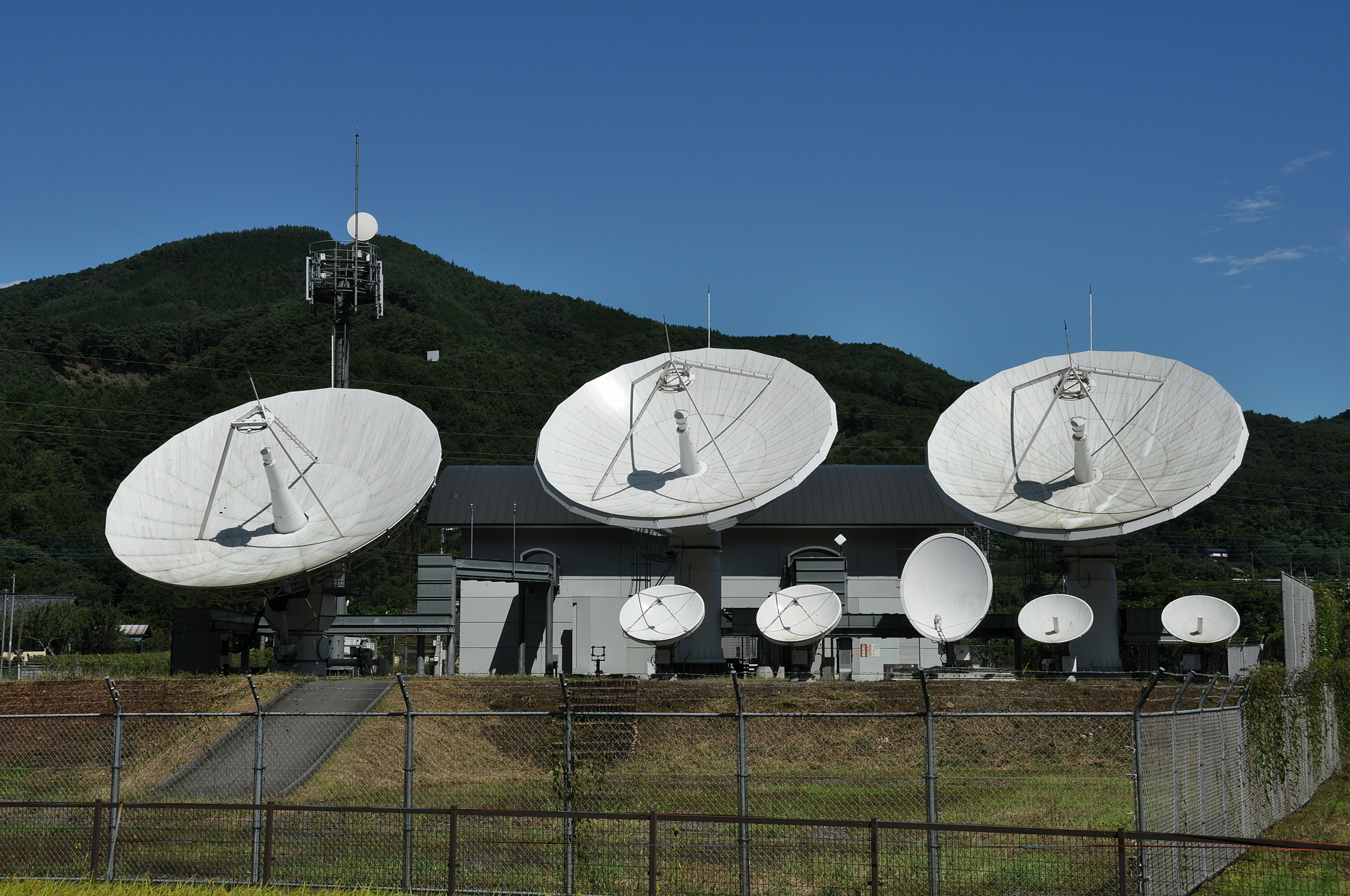 Sayado Satellite Earth Station,NTT DOCOMO, Inc. (Midori city, Gunma prefecture, Japan)